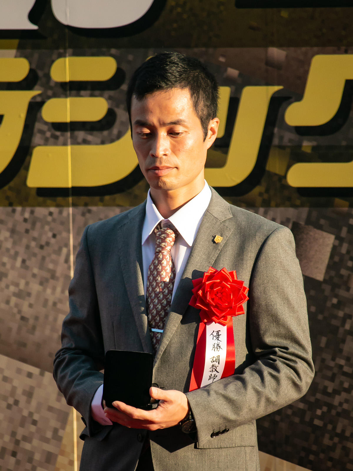 Haruki Sugiyama (Horse trainers of JRA).